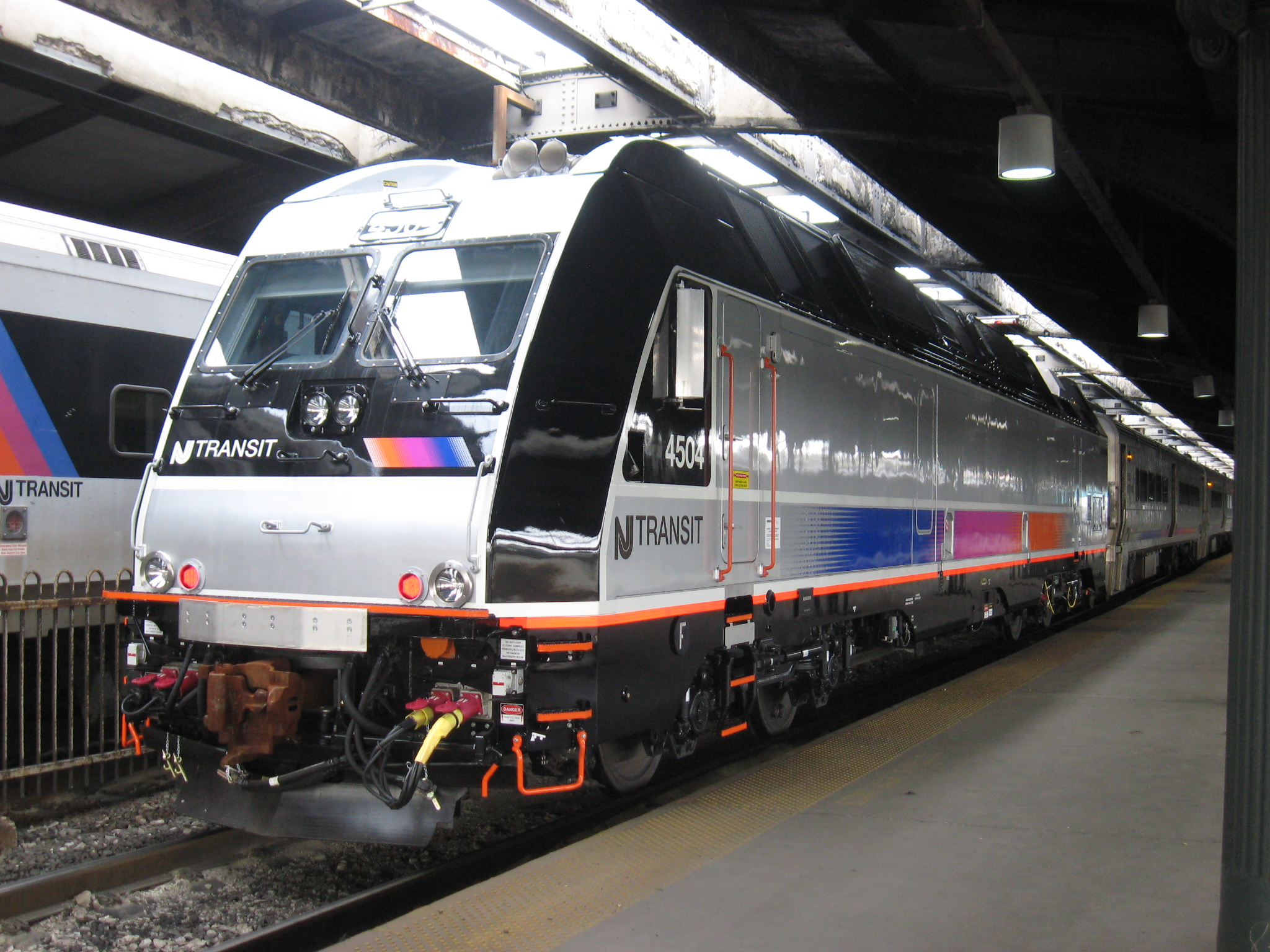 NJT ALP-45DP 4504 awaiting departure on train 1009 to Hackettstown at Hoboken Terminal. Leading 5 car Comet V set.